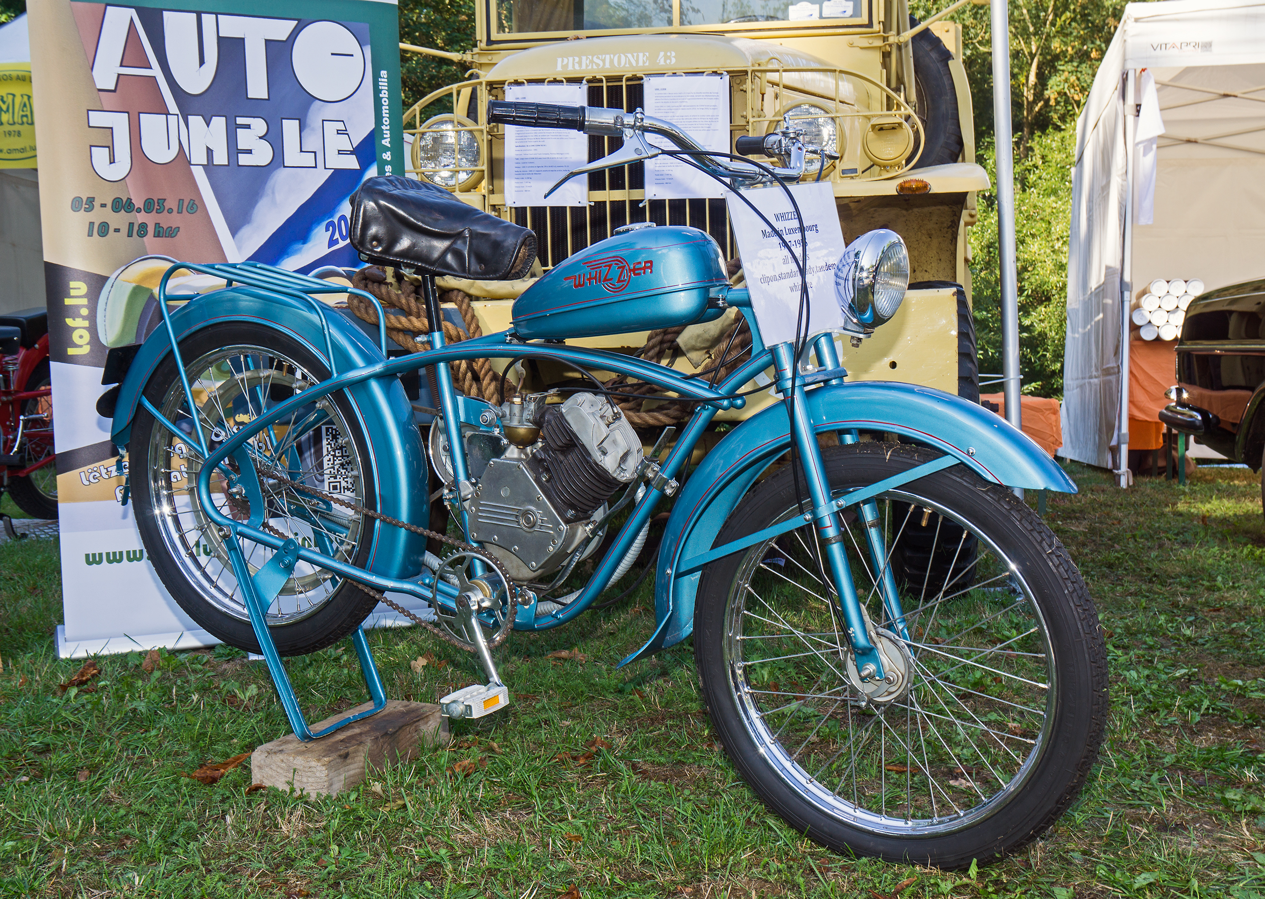 Restored Whizzer motorcycles (assembled in Luxembourg) during a charity organization in Mondorf